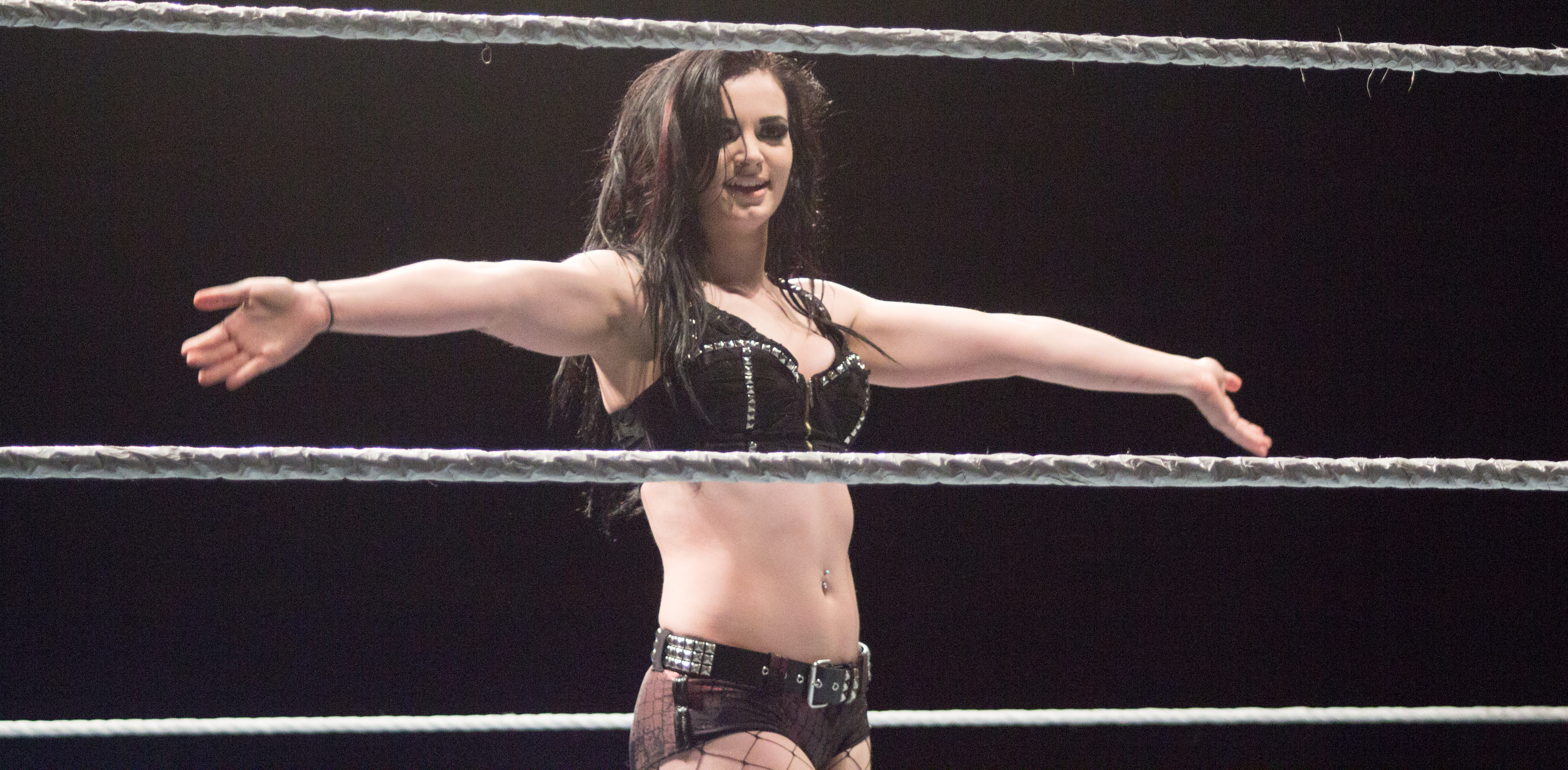 Paige at a house show in 2015.